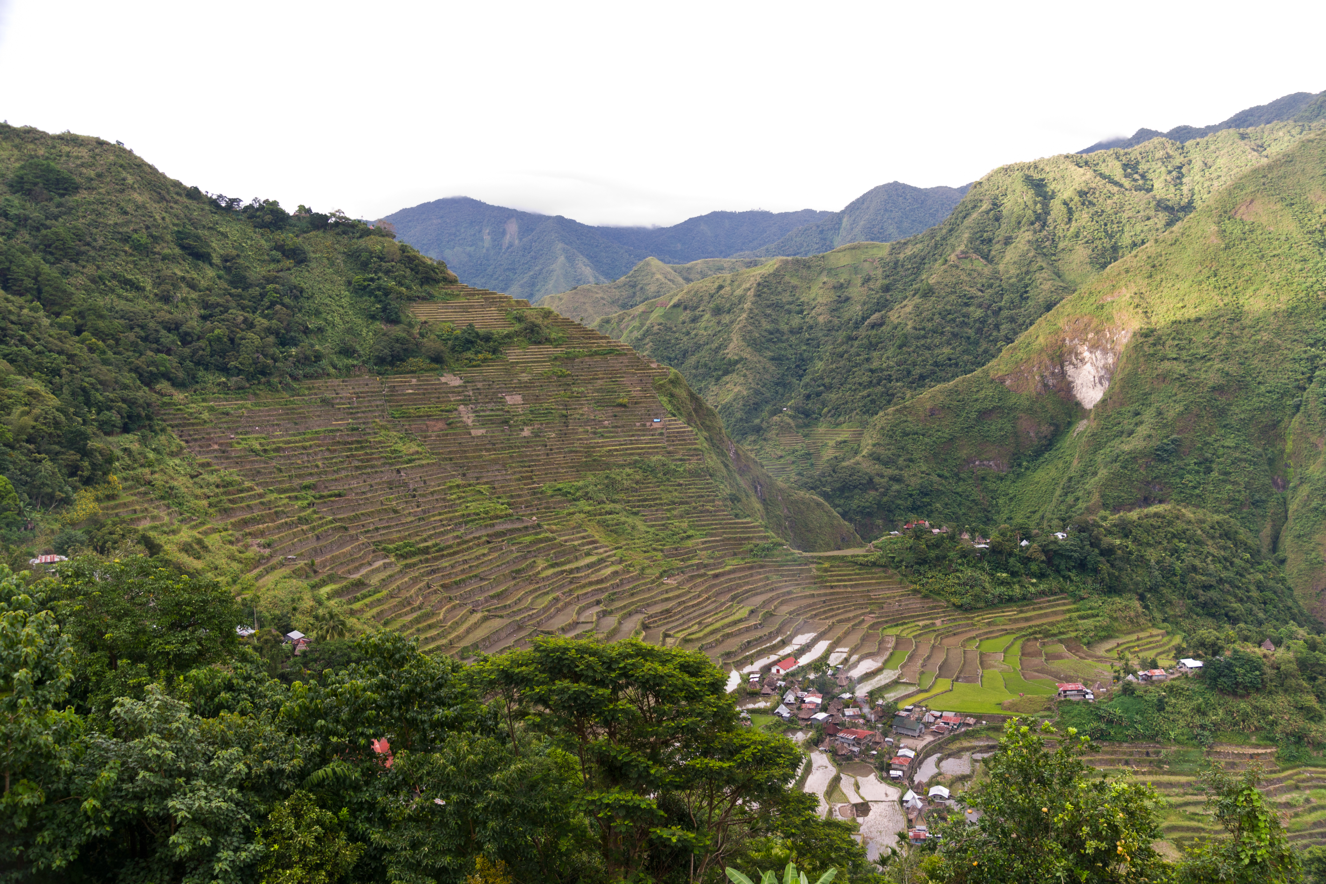 Banaue, Philippines: Batad Rice Terraces